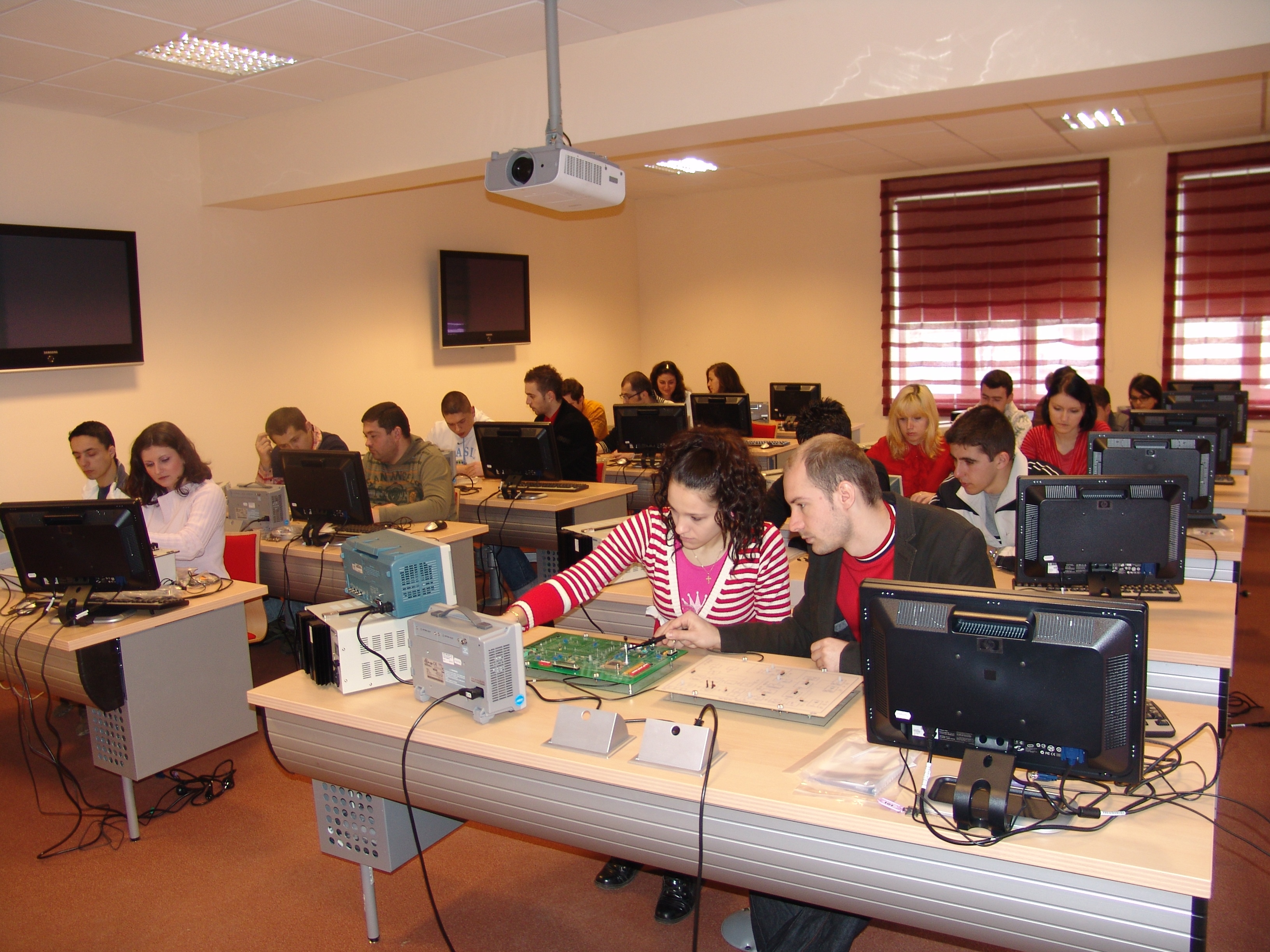 Laborator Inginerie - Universitatea Valahia din Târgoviște (UVT)